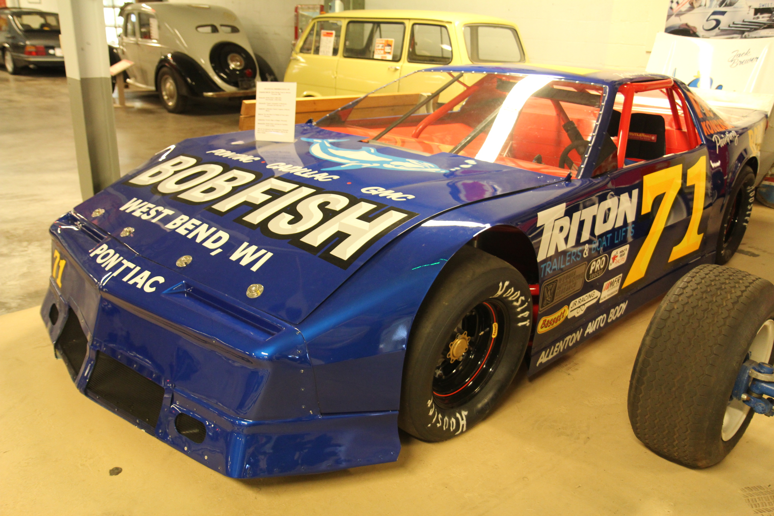 The late model that Robbie Reiser used while racing in Wisconsin on display at the Wisconsin Automobile Museum